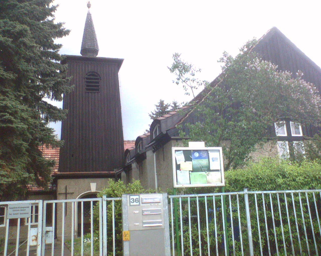 The Paul-Gerhardt-Gemeindeheim (parish home) in Bohnsdorf, Treptow-Köpenick, Berlin.